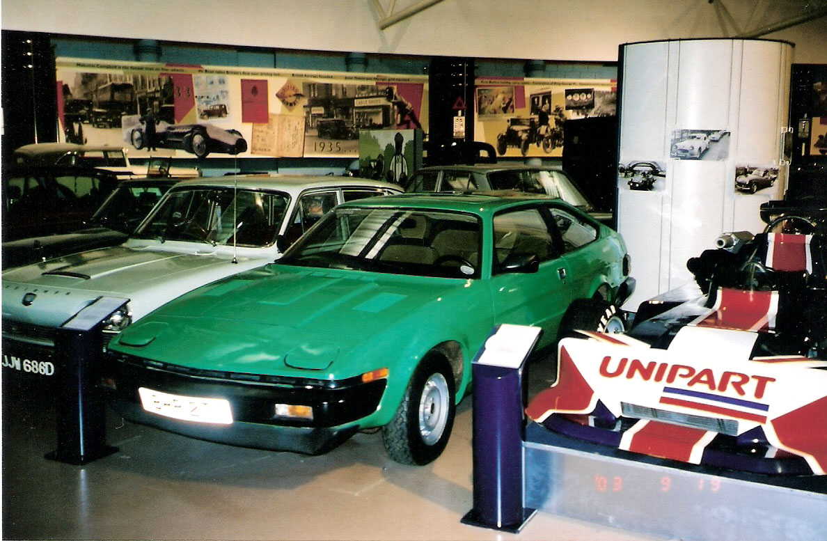 Concept on the TR7 theme. One of eighteen built but likely the only survivor. A stretched wheelbase allowed for rear seats. Taken in 2003 at the Heritage Motor Centre in Gaydon. Unfortunately poor quality due to cheap film camera then transfer to CD.